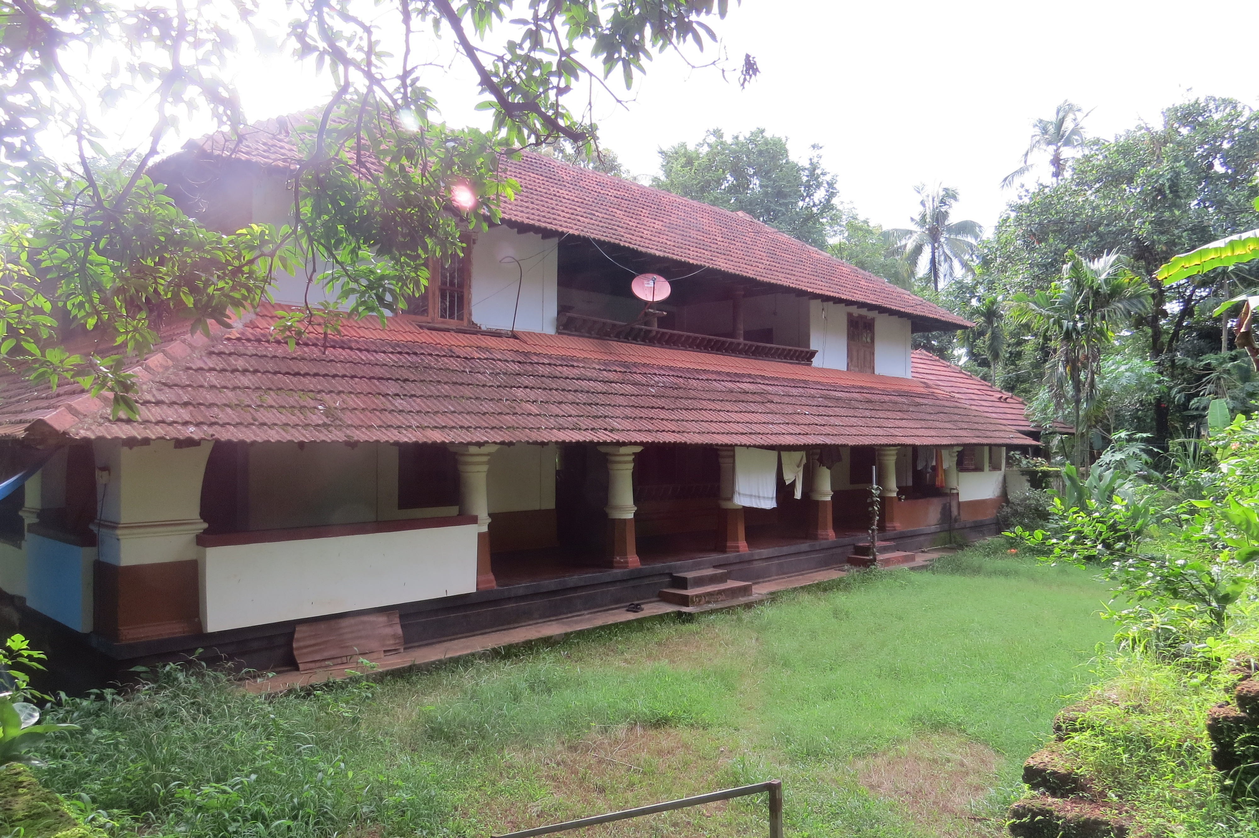 Photos from 2014 by Vinayaraj